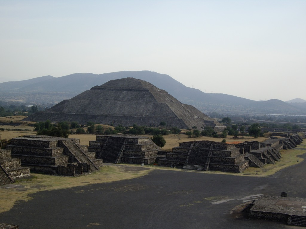 The pyramids of Teotihuacán, Mexico